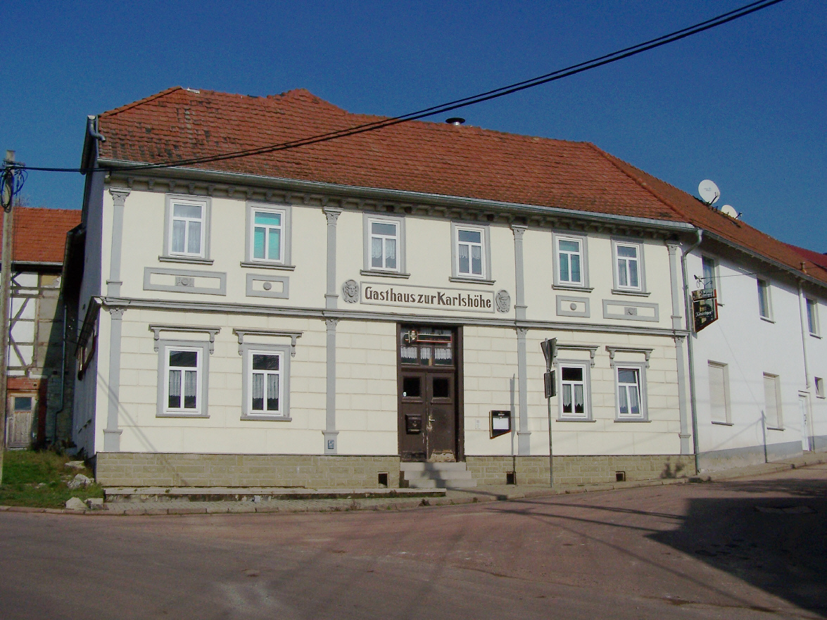 The old inn Karlshöhe in Melborn.